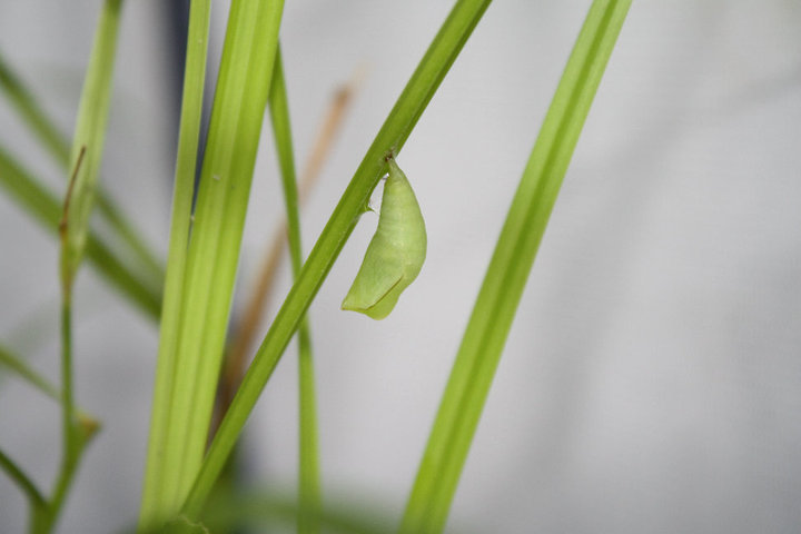 St. Francis' satyr Neonympha mitchellii francisci chrysalis from captive-reared population on Ft. Bragg